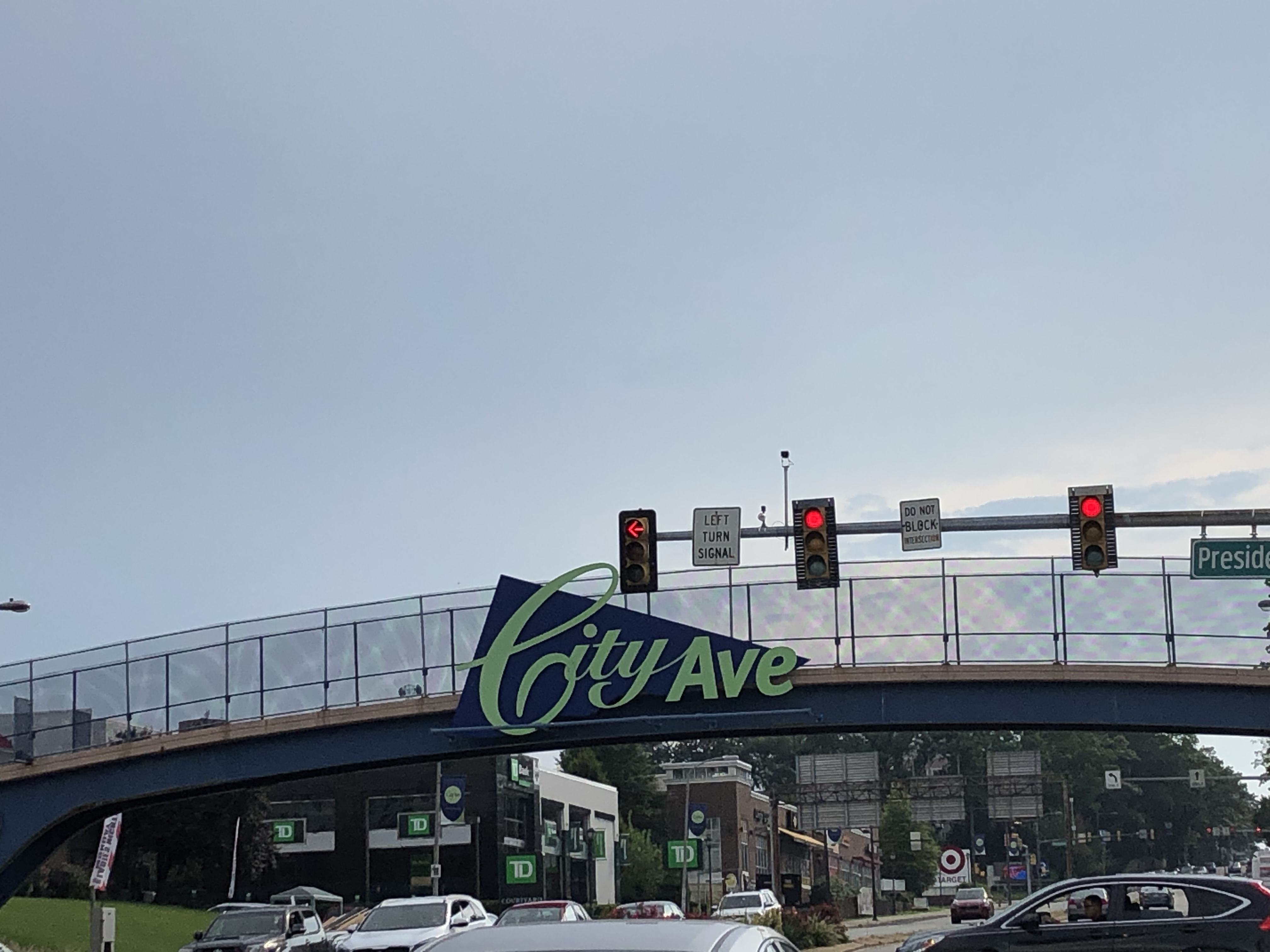 City Avenue